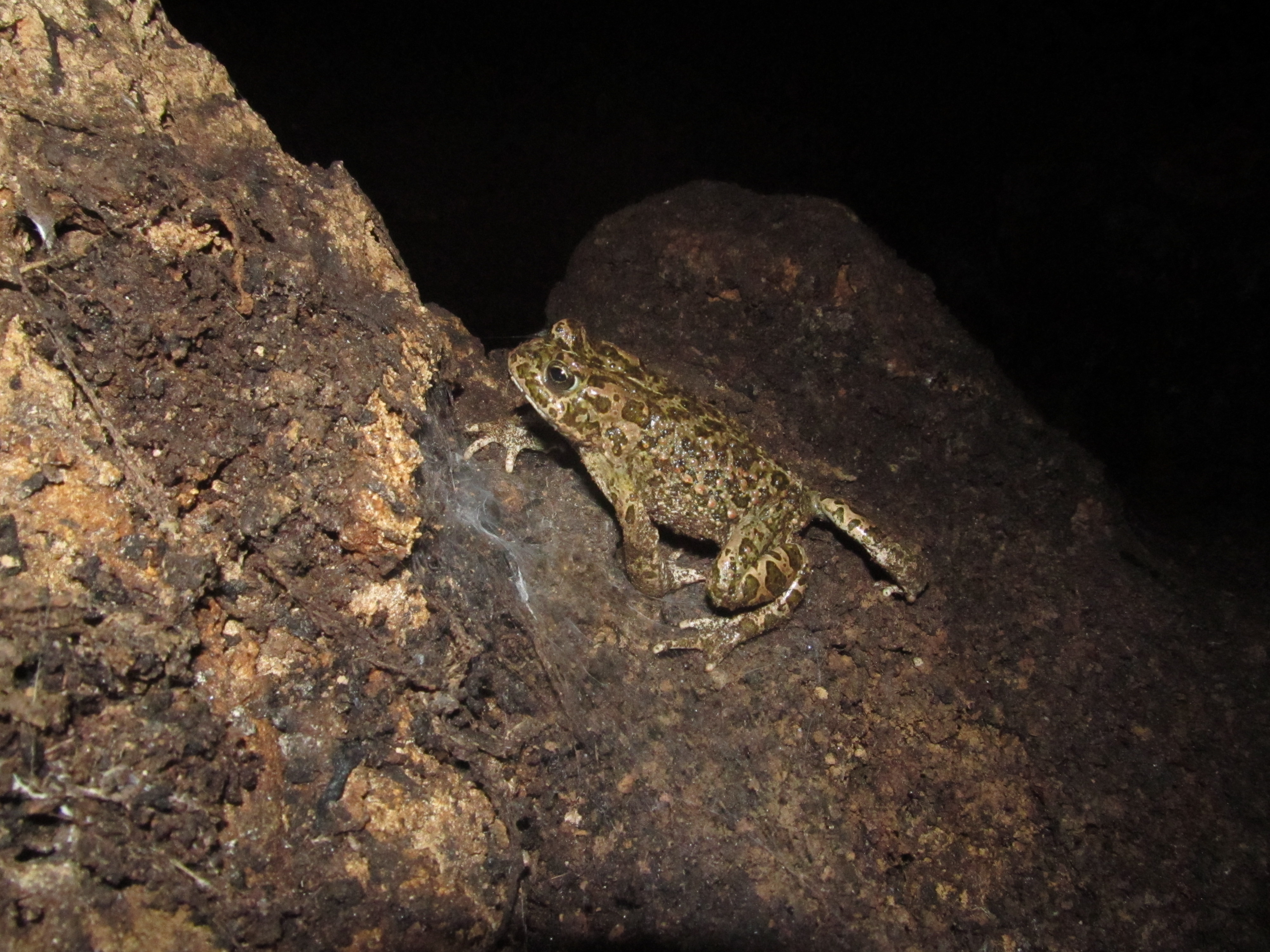 It took me about 10 minutes running after it, probably don't want to be famous .. Ichkeul Bizerte